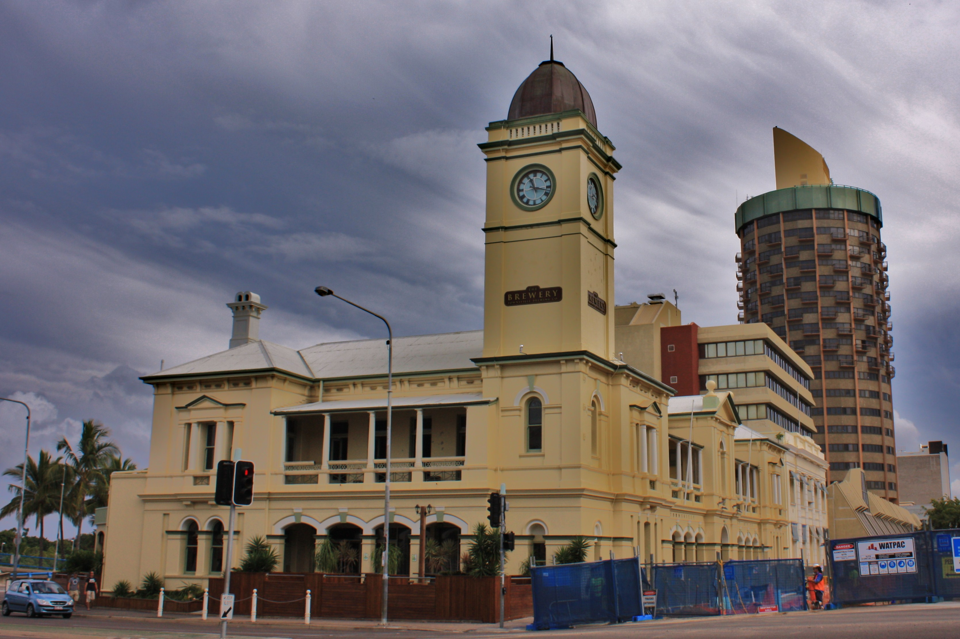 This building began its life, rather obviously, as the Townsville Post Office. The tower was built in three stages from 1886. During World War II, after the first raid on Townsville, the defence department became concerned that the clock tower would become a target for Japanese bombers after the Post Office clock in Darwin was bombed, so the clock tower was dismantled by the community in a record three days in 1942. The clock tower mechanism was stored away, and a greatly modified tower was built in 1963-64 by JE Allen & Co. of Townsville. However, this tower has been closed to the public because it has never been tested in terms of structural integrity. The government sold the building in the late 1990s and the current owners undertook some major work to turn it into a brewery for the Townsville Brewing Co. In 2001, The Brewery opened as a micro-brewery, restaurant, bar, nightclub and commercial kitchen.